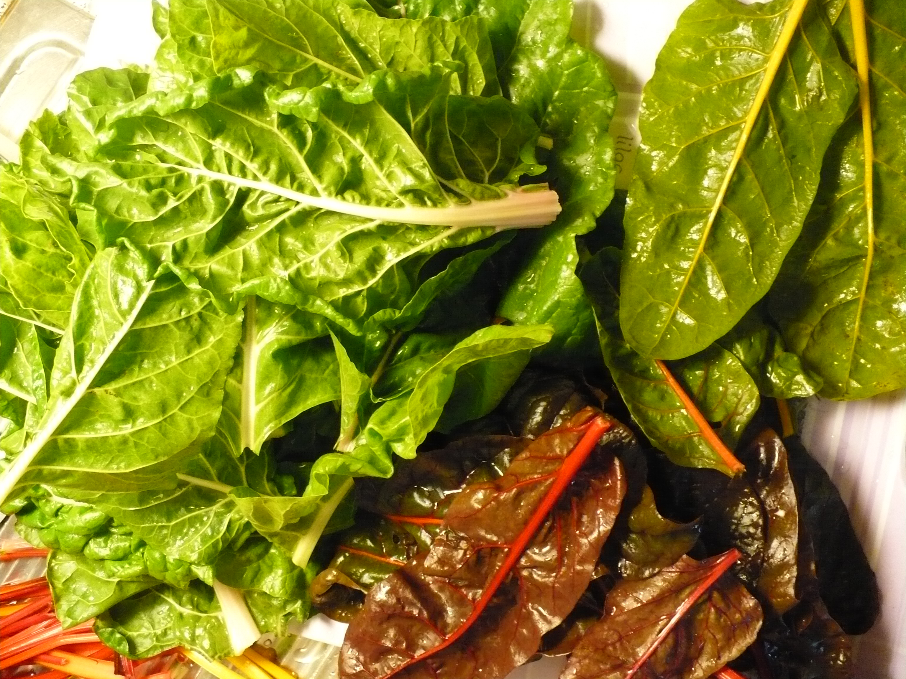 Chard leaves